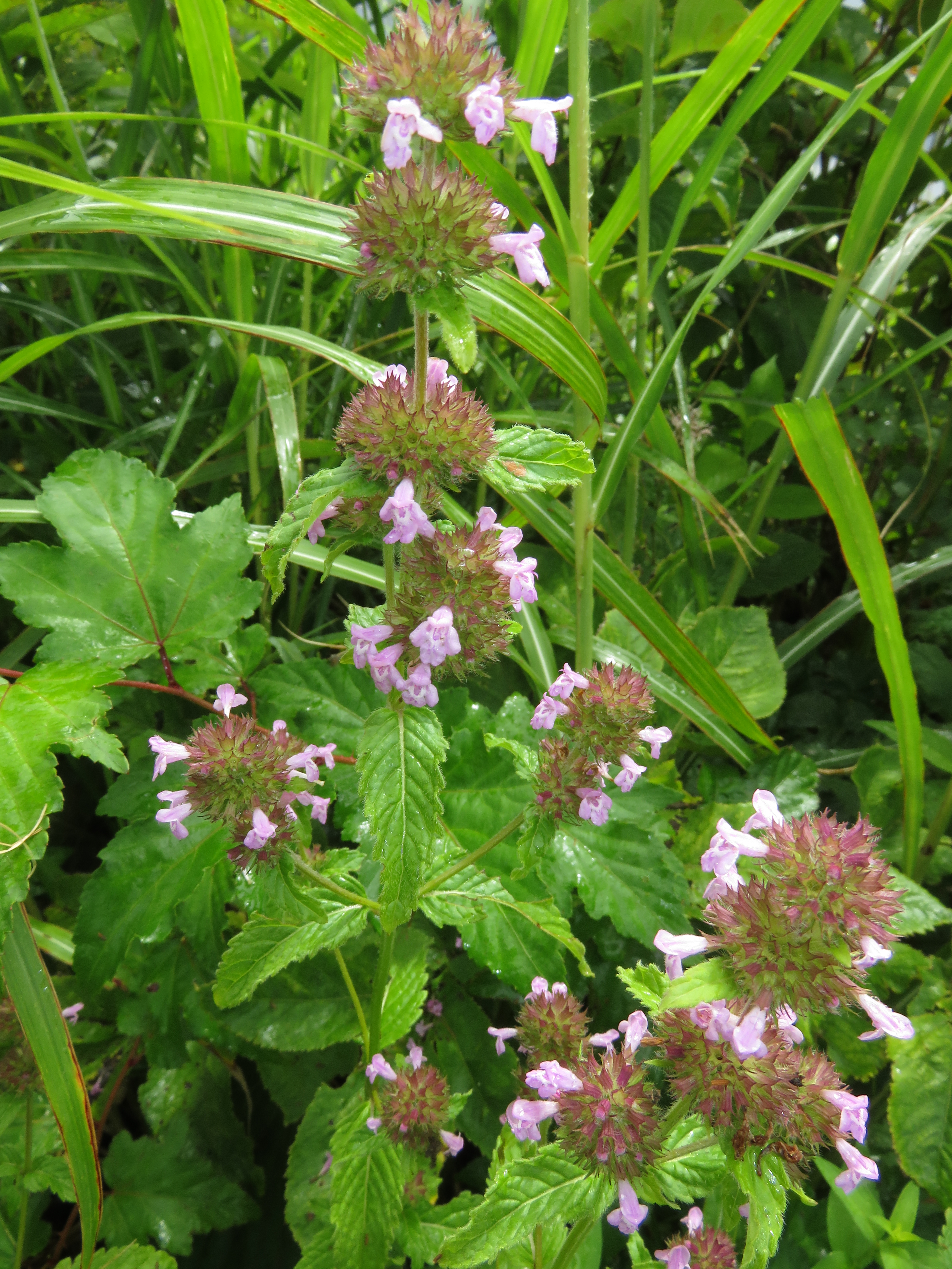 Clinopodium chinense subsp. grandiflorum, Aizu area, Fukushima pref., Japan